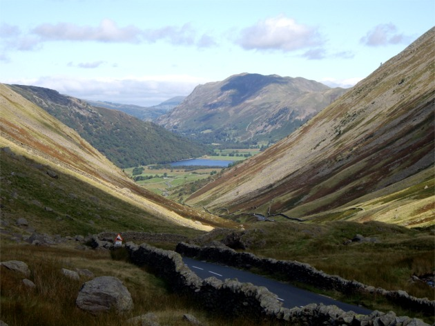 Looking down Kirkstone Pass towards Brothers Water